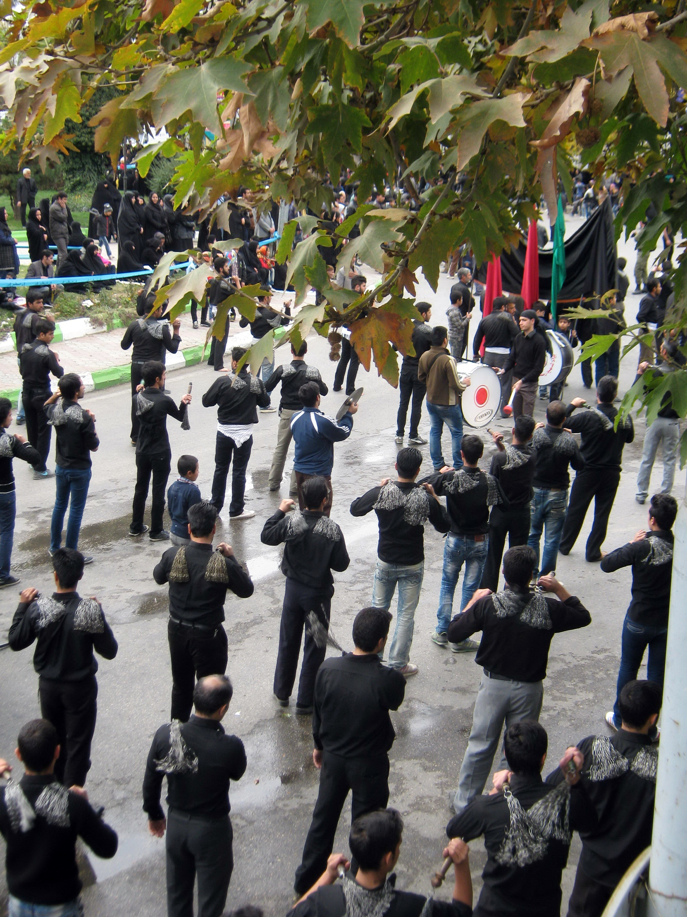 Mourning of Muhrram - 2013 - Nishapur